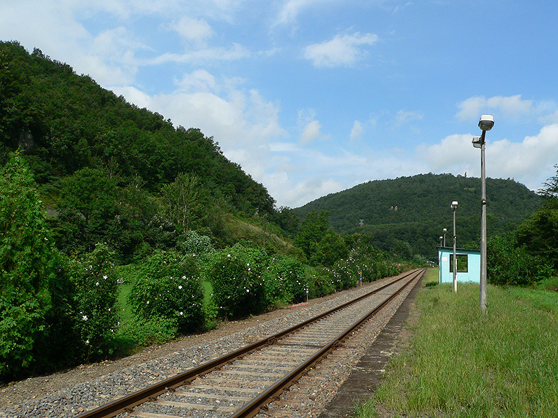 KORAIL Sanin Station